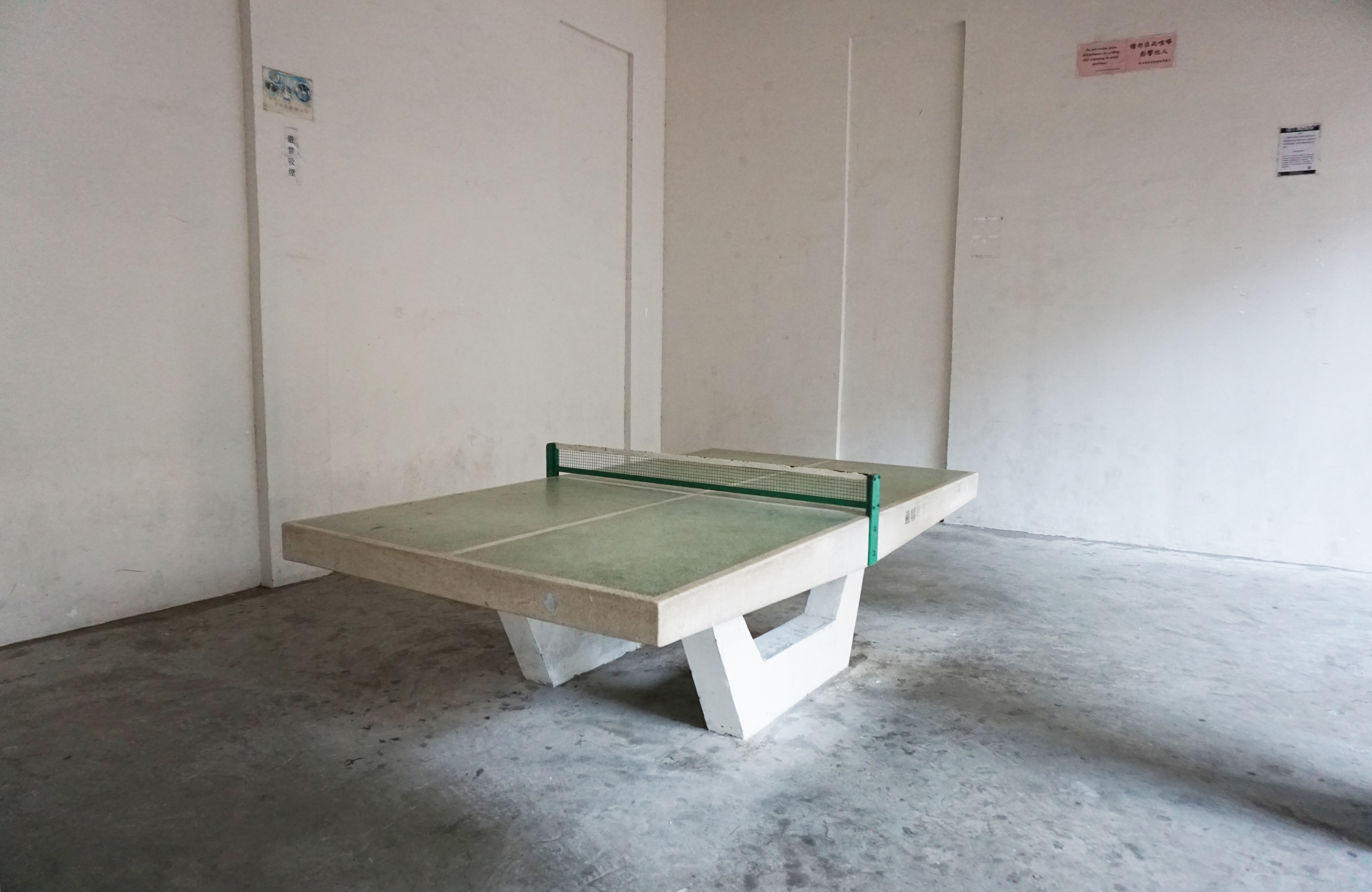 Po Tin Estate in Tuen Mun, Hong Kong.